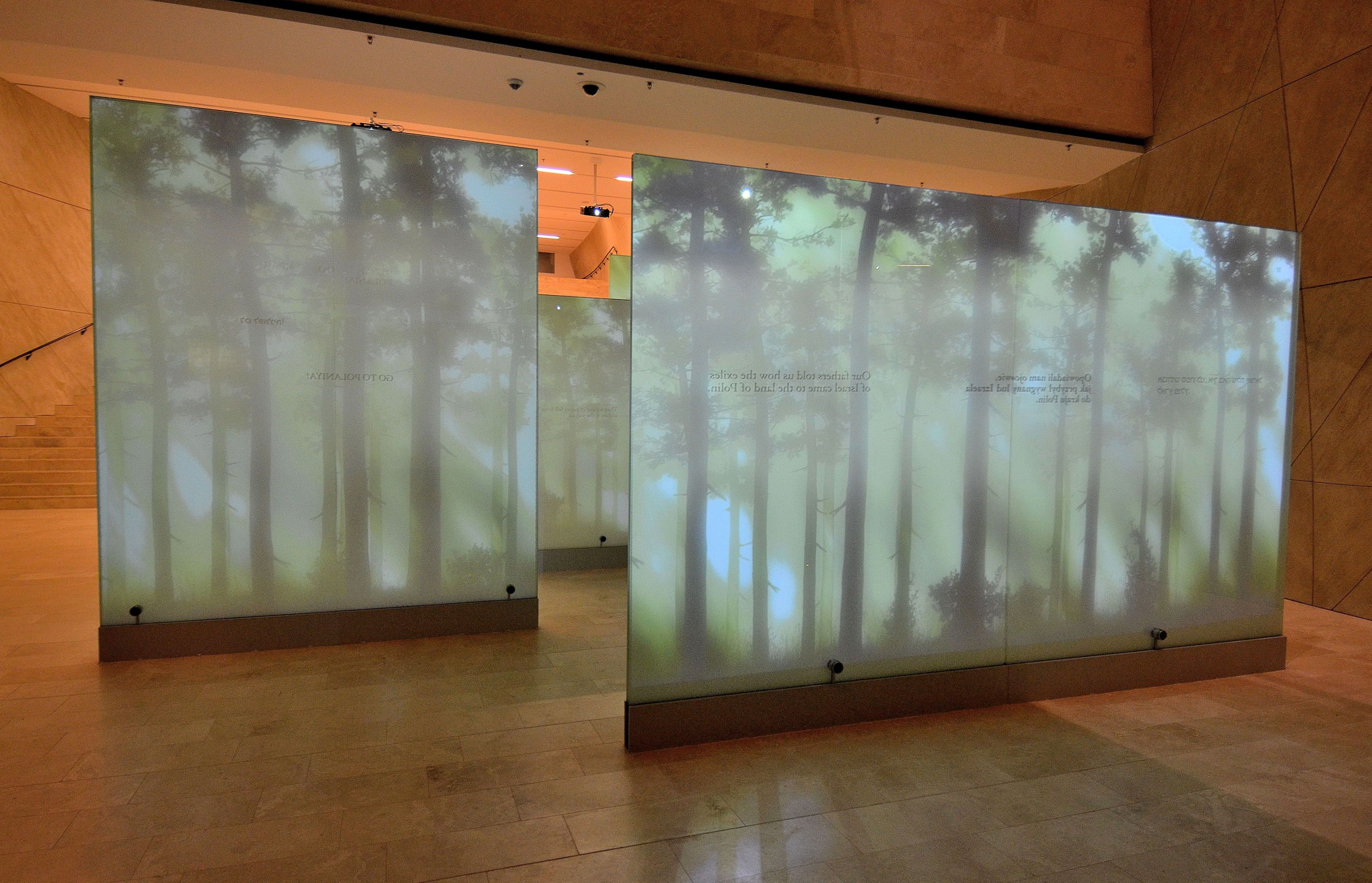 Core exhibition at the Museum of the History of Polish Jews in Warsaw. "Forest" gallery